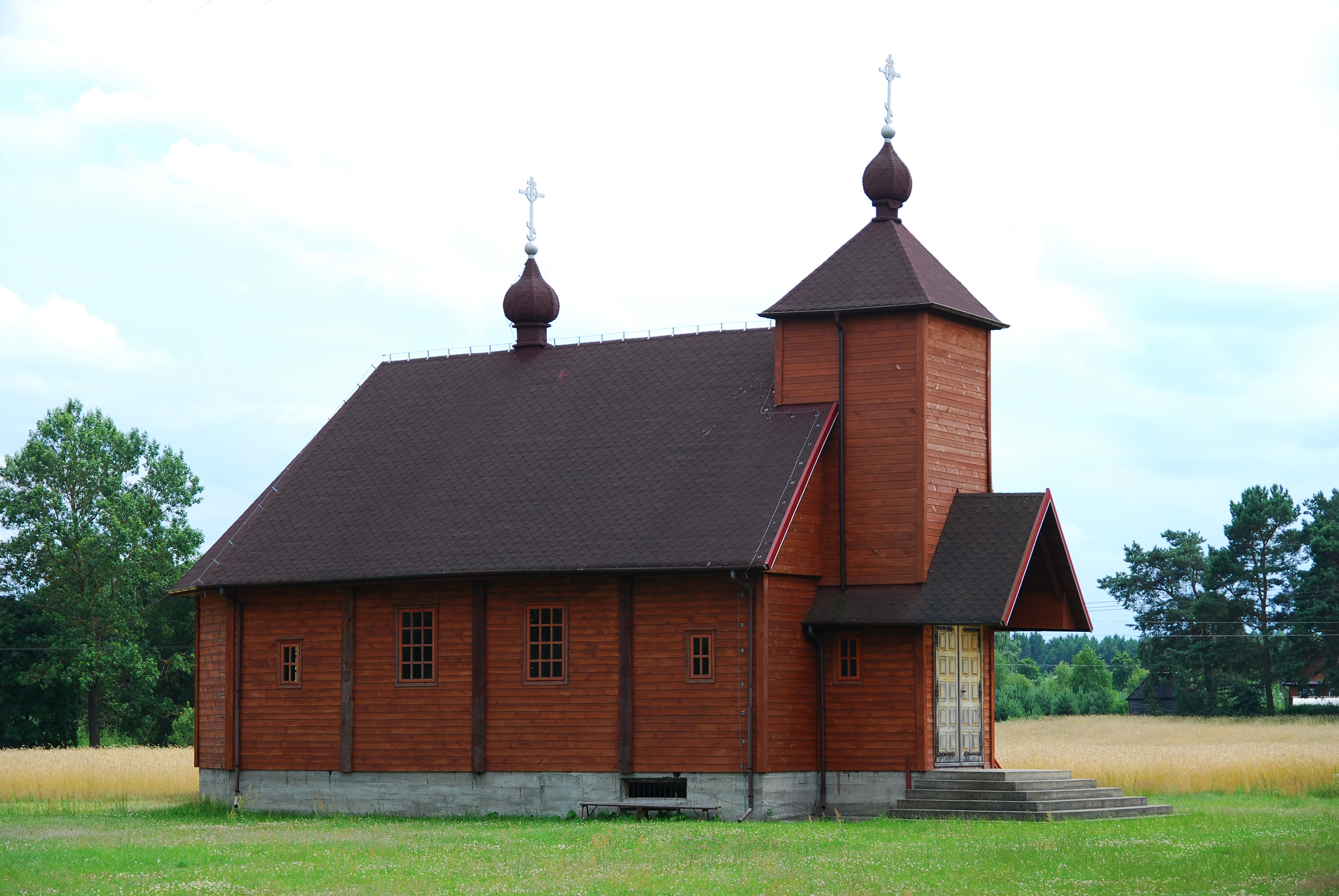 This photo from Podlaskie Voievodeship was taken during Polish Wikiexpedition 2009 set up by Wikimedia Polska Association. The making of this document was supported by Wikimedia Polska. cerkiew Cyryla i Metodego w Maćkowiczach